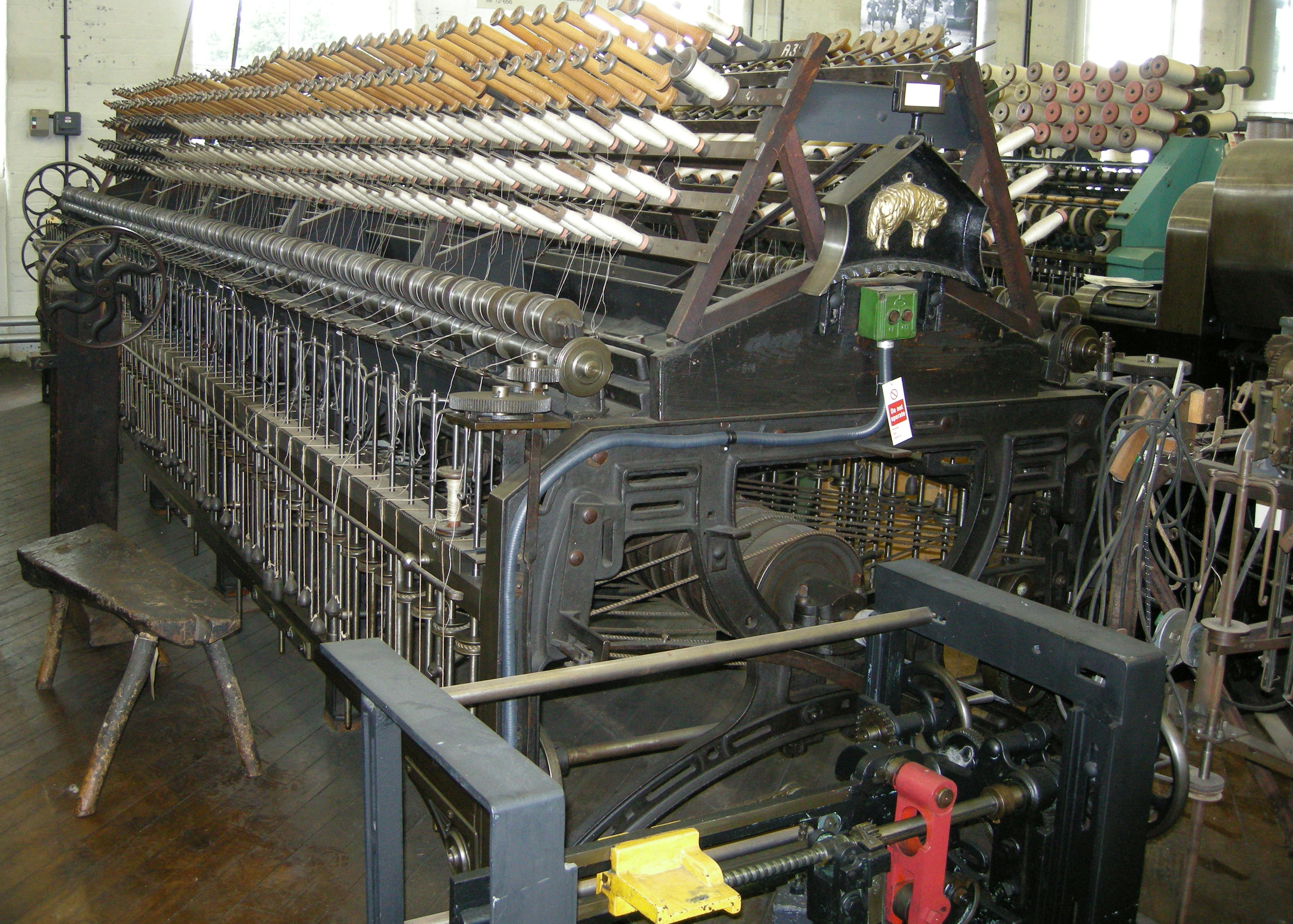 Spinning machine at Bradford Industrial Museum, Bradford, West Yorkshire, England. 53.48'.40".N; 1.43'.16".W.